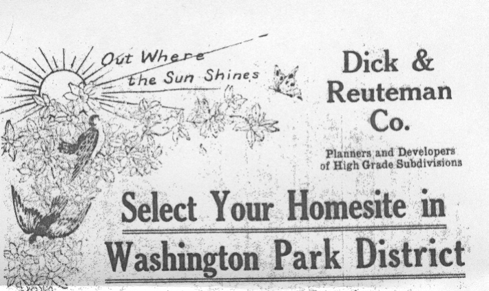 Advertisement for selecting a home in the Washington Park District (later called Martin Drive).